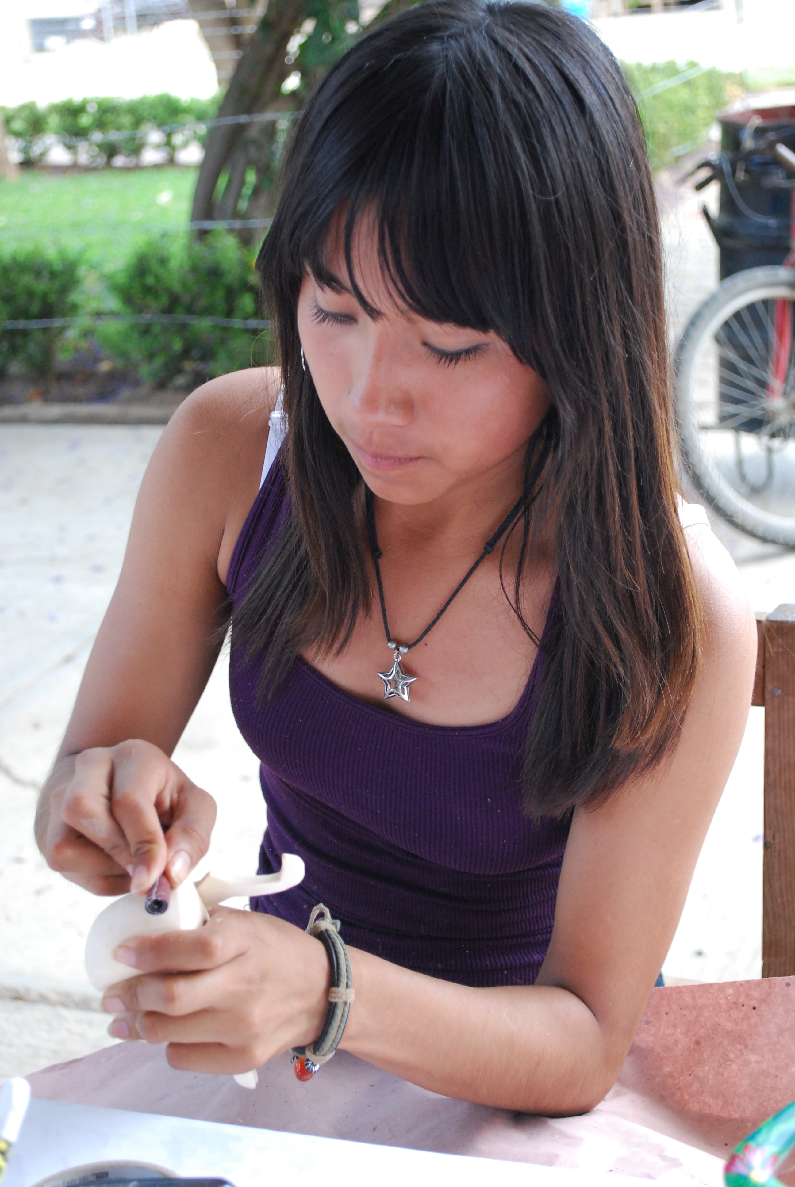 Woman sanding a wood alebrije in progress in San Martin Tilcajete, Oaxaca, Mexico